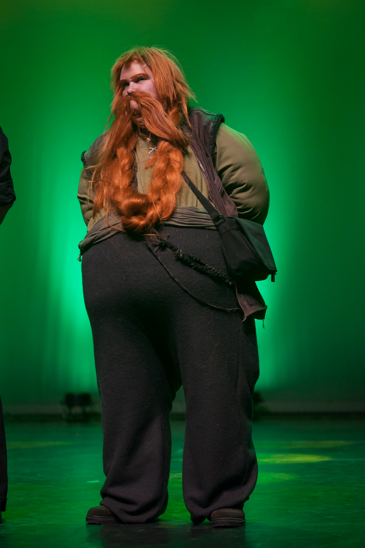 Cosplay of Bombur (from The Hobbit trilogy) at Yukicon 2014